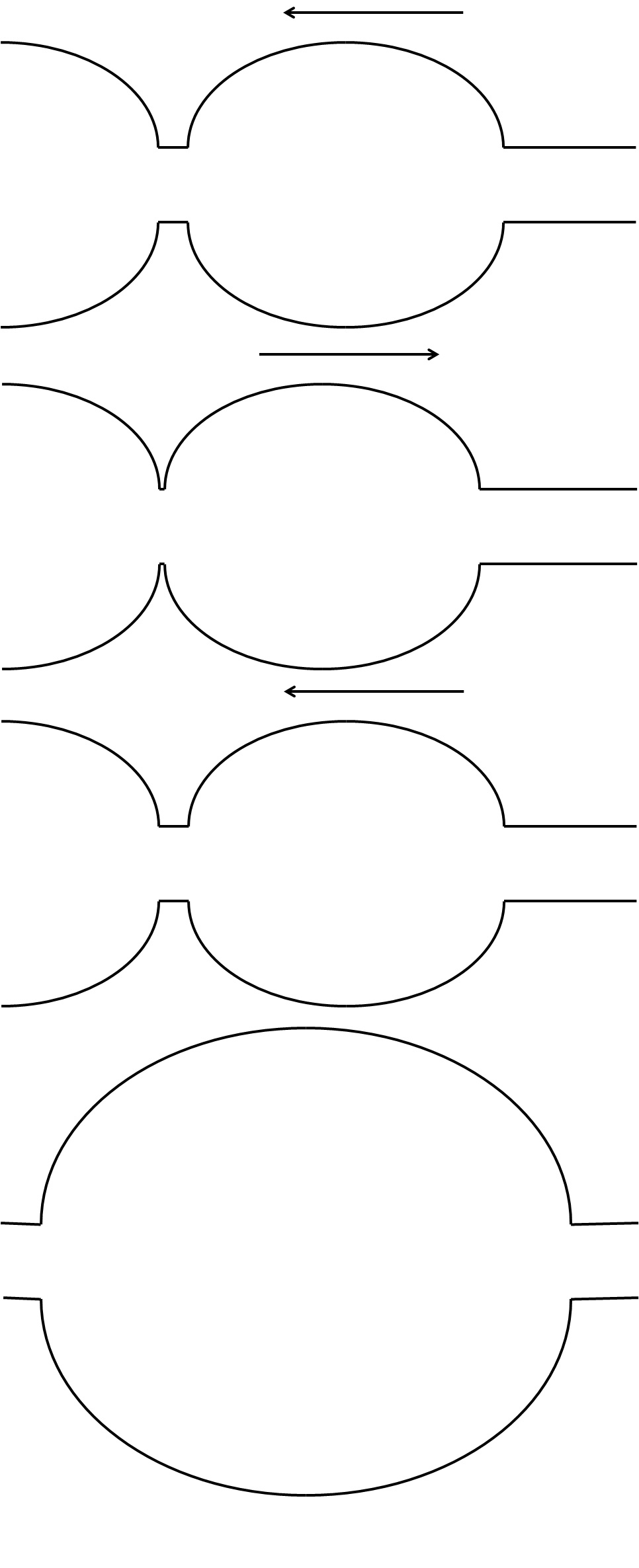 Oscillation phenomenon in bead string structure